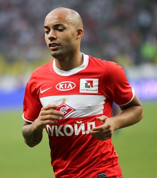 Demy de Zeeuw with FC Spartak Moscow.